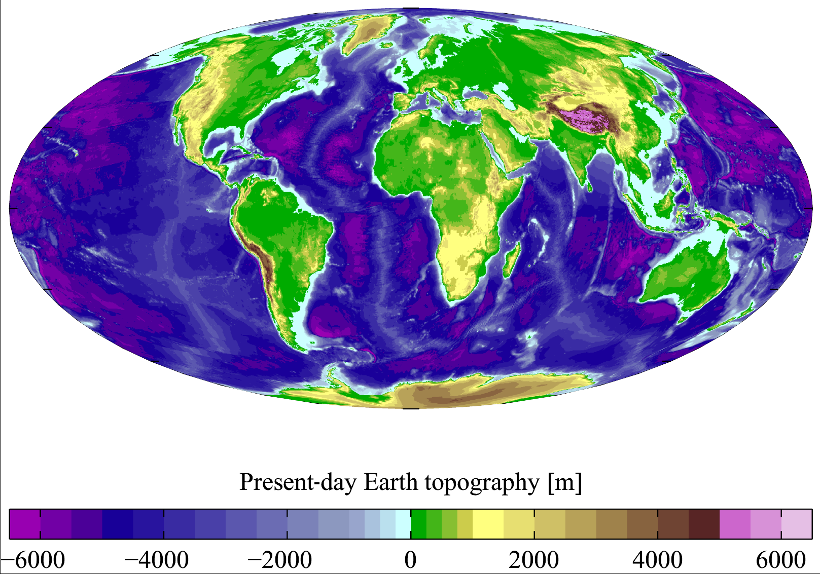 Present-day Earth topography and bathymetry at 15-minute horizontal resolution. Derived from the National Geophysical Data Center's TerrainBase Digital Terrain Model (v1.0). The original dataset is at 5-minute resolution, and this has been averaged down to 15-minute resolution. It is plotted here using a Mollweide projection (using MATLAB and the M_Map package).